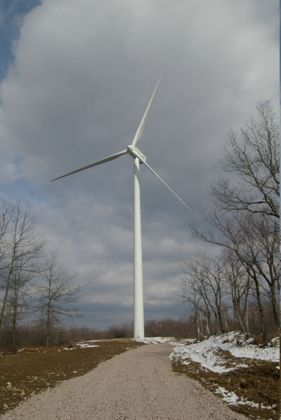 Gamesa Wind turbine of the Bear Creek Wind Power Project. Taken by a friend at Bald Mountain in Bear Creek, Pennsylvania.